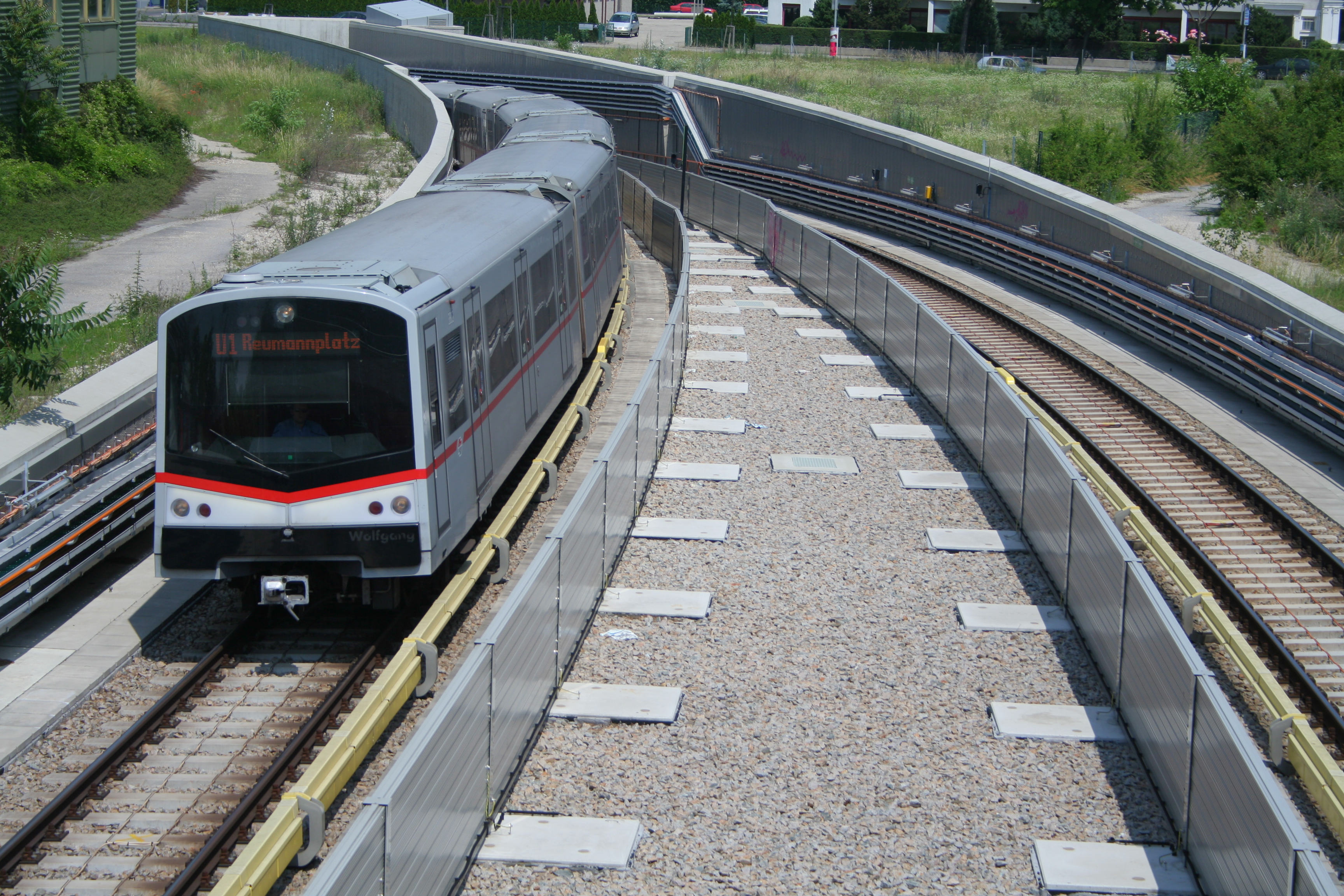 Southbound metro train on line U1, arriving at station Aderklaaer Straße, Vienna